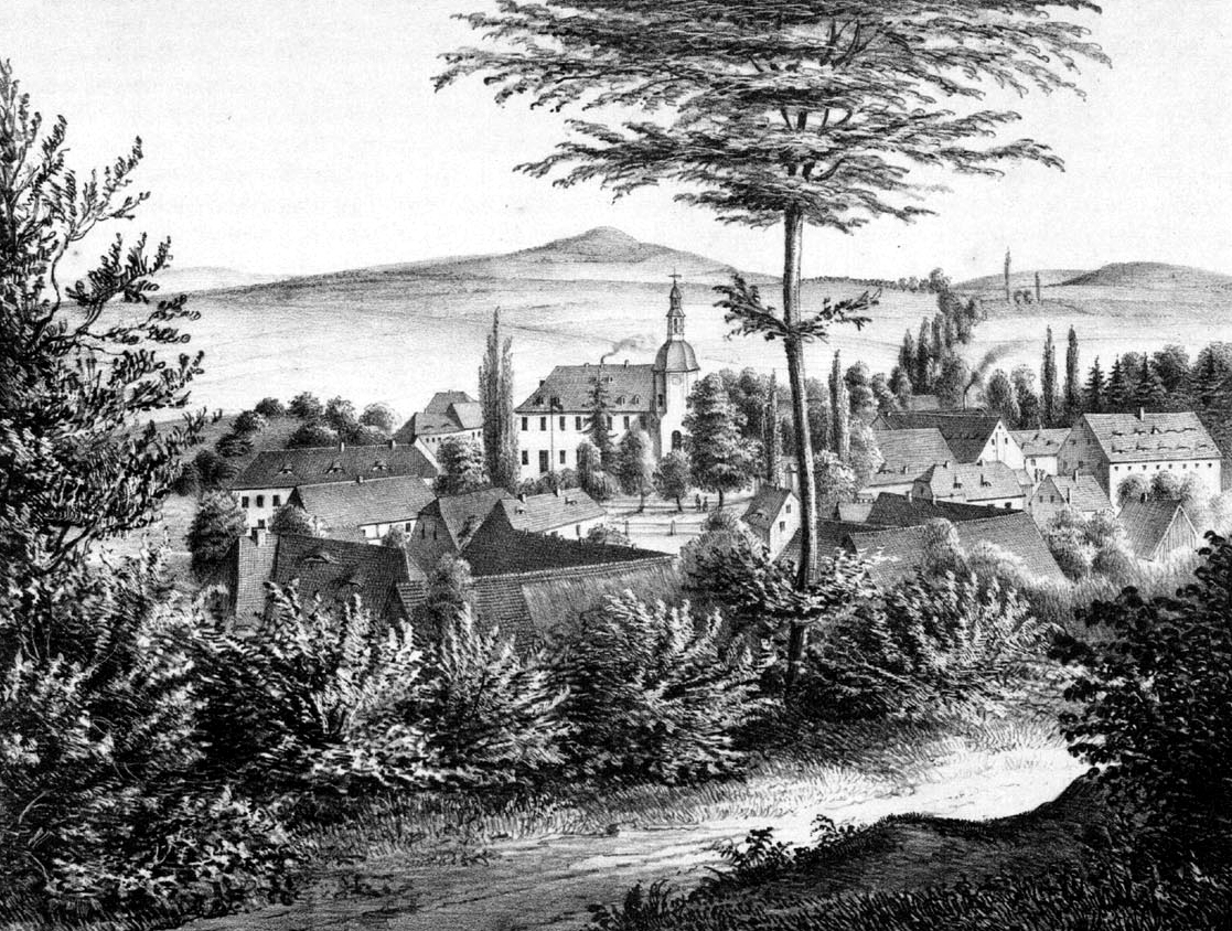 This image shows Zehista.